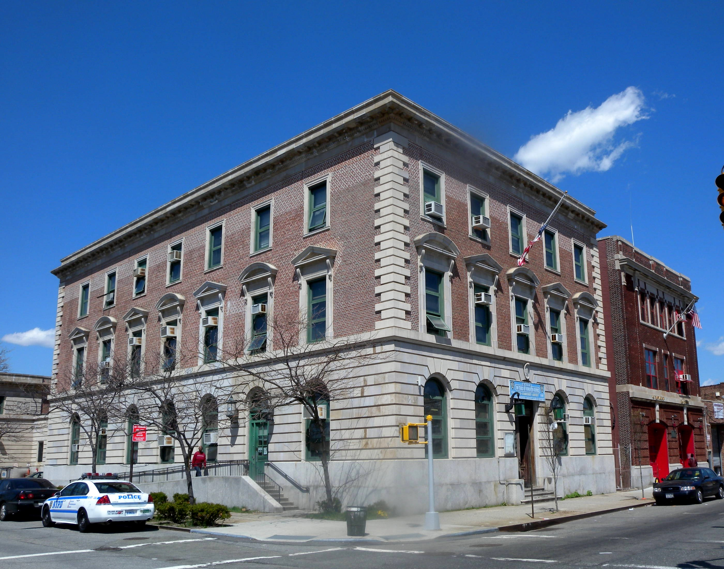 Looking northeast across Beach 94th at precinct on a sunny midday.